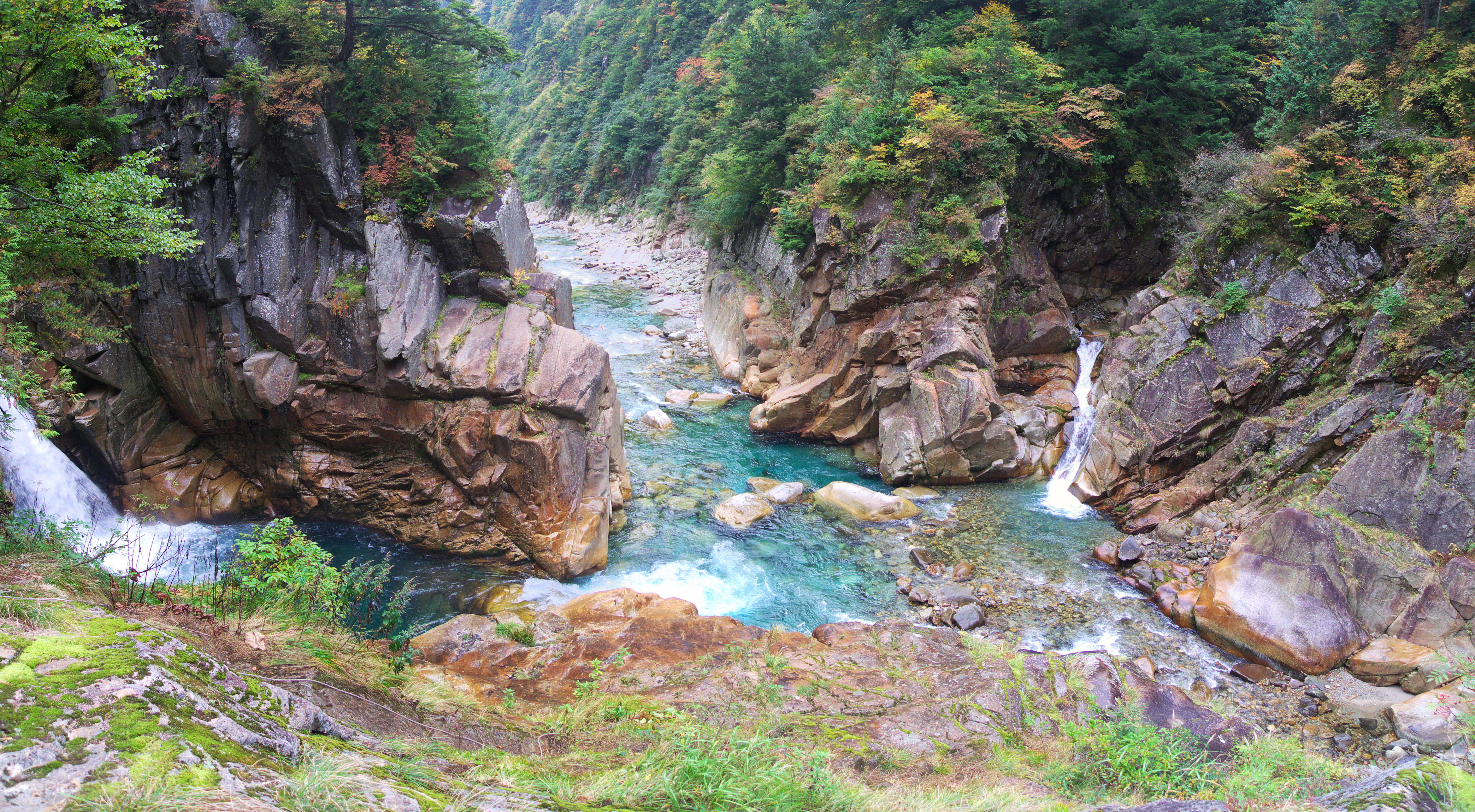 Jujikyo ("cross gorge") in Kurobe Gorge, viewed from the observatory along the Nichiden Hodo trail. Kurobe River (the main stem) runs from bottom right to top left, whilst two tributaries flow in from both sides